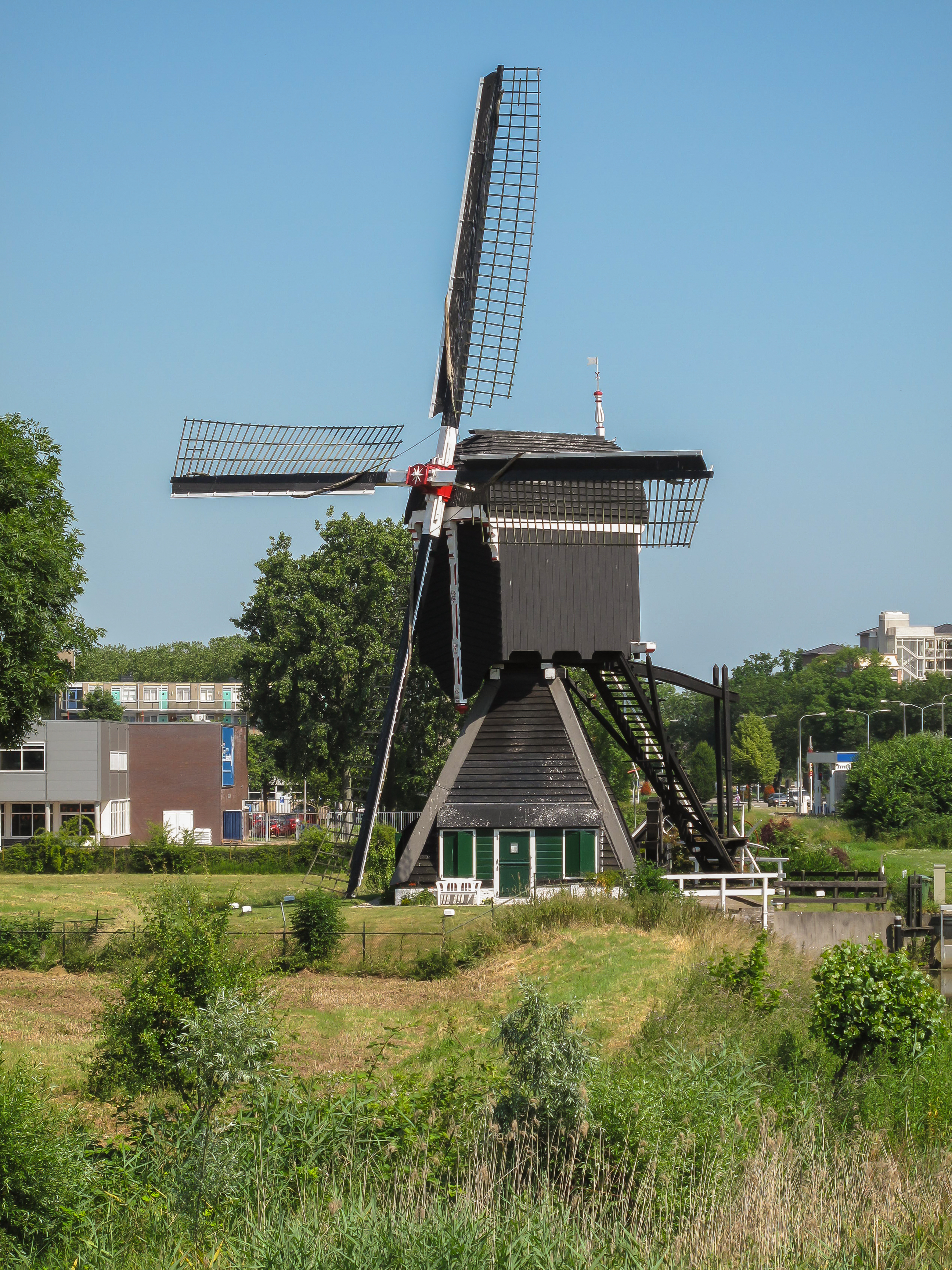 Leerdam, windmill